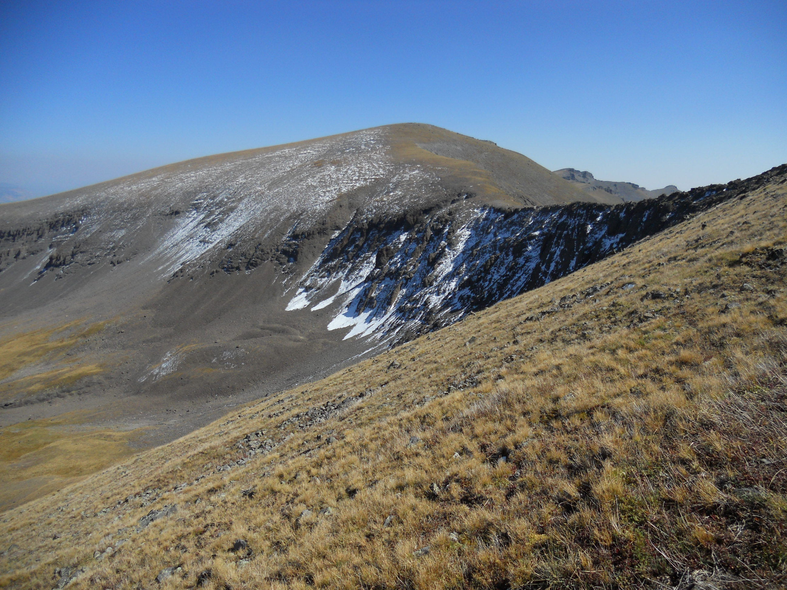 West Elk Peak viewed from the northwest. At an elevation of 13,042 ft (3,975 m), this peak is the highest summit in the West Elk Mountains. It is located in the West Elk Wilderness within the Gunnison National Forest.